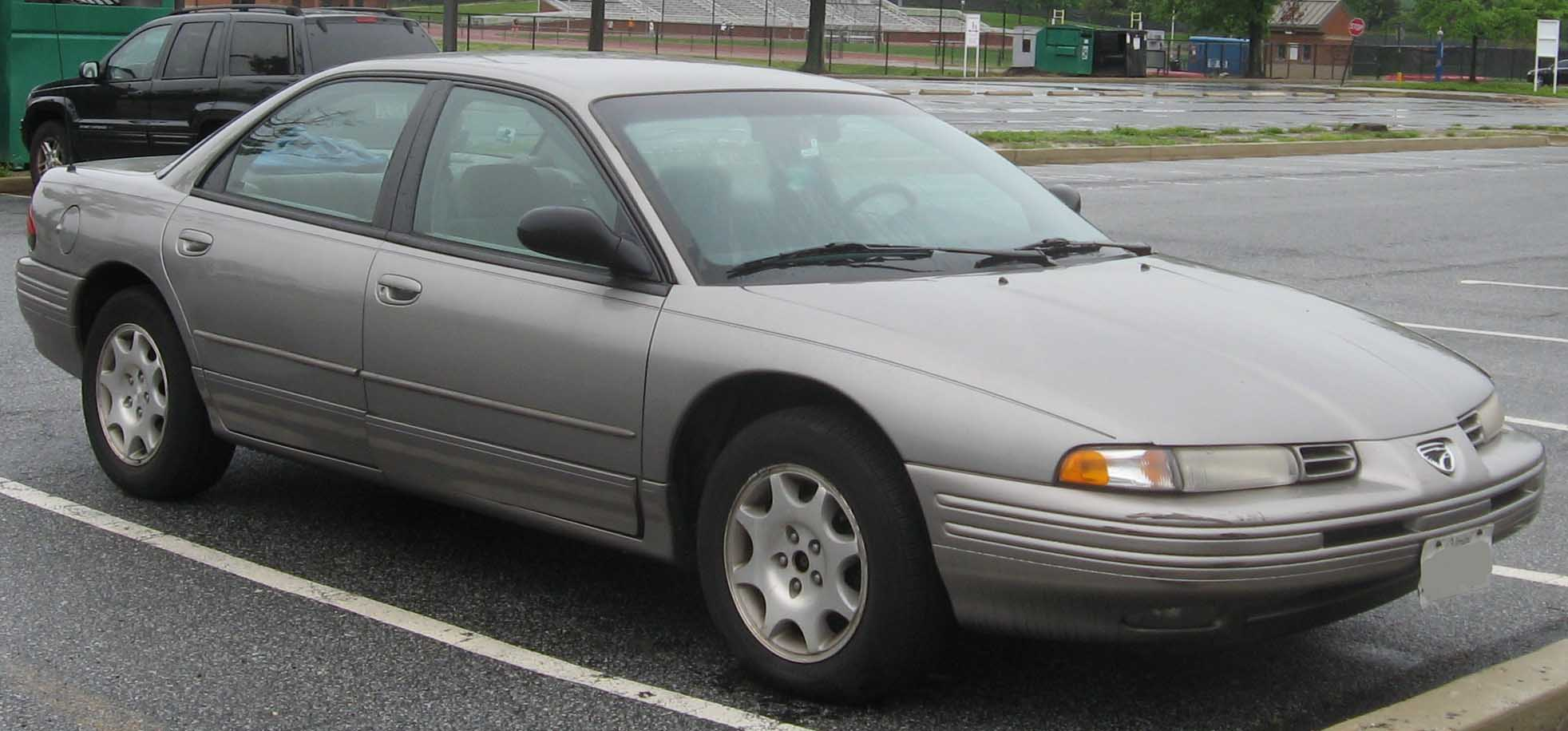 1993-1997 Eagle Vision photographed in College Park, Maryland, USA.